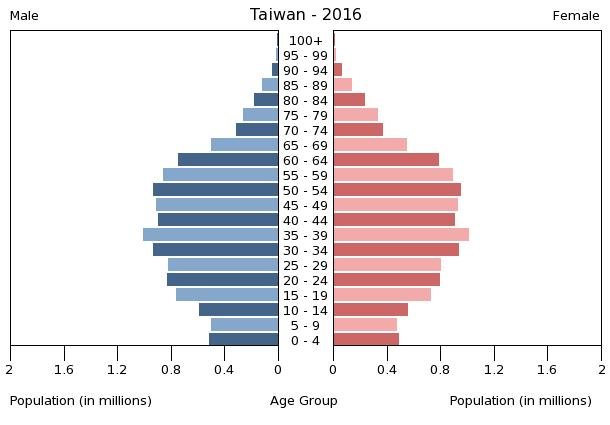 The population pyramid of Taiwan illustrates the age and sex structure of population and may provide insights about political and social stability, as well as economic development. The population is distributed along the horizontal axis, with males shown on the left and females on the right. The male and female populations are broken down into 5-year age groups represented as horizontal bars along the vertical axis, with the youngest age groups at the bottom and the oldest at the top. The shape of the population pyramid gradually evolves over time based on fertility, mortality, and international migration trends.